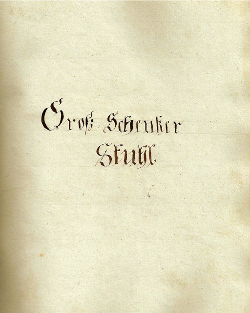 Transylvanian Saxon cattle-brands: Groß Schenk/Cincu/Nagysink seat